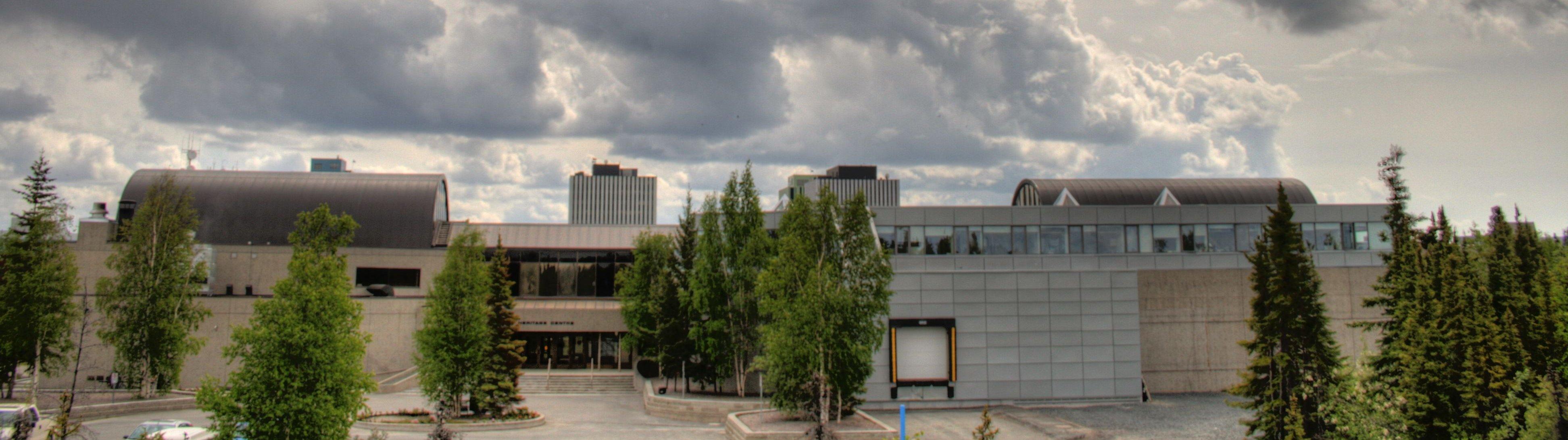 North face of the Prince of Wales Museum, Yellowknife, Northwest Territories, Canada.